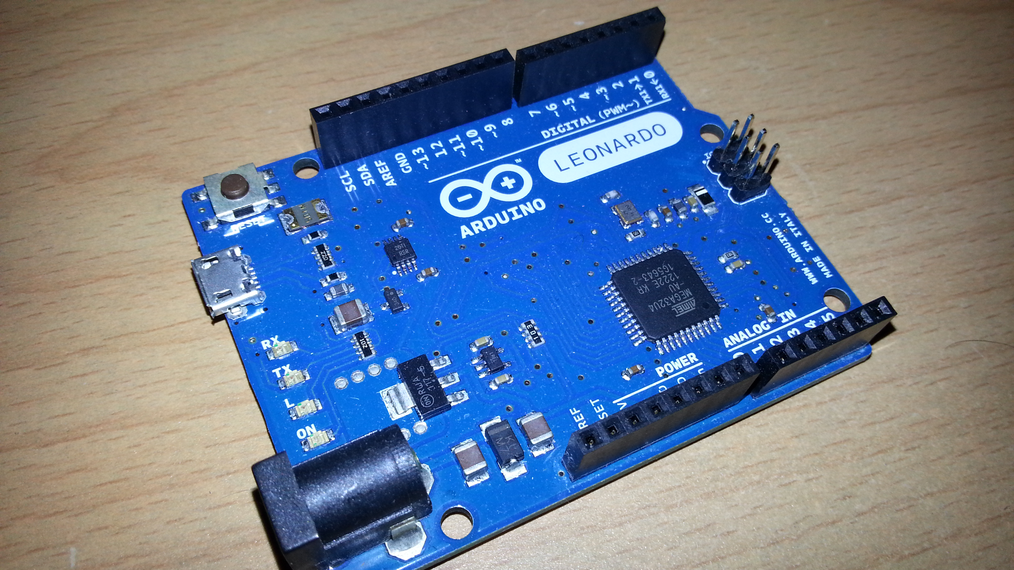 Arduino Leonardo microcontroller board.